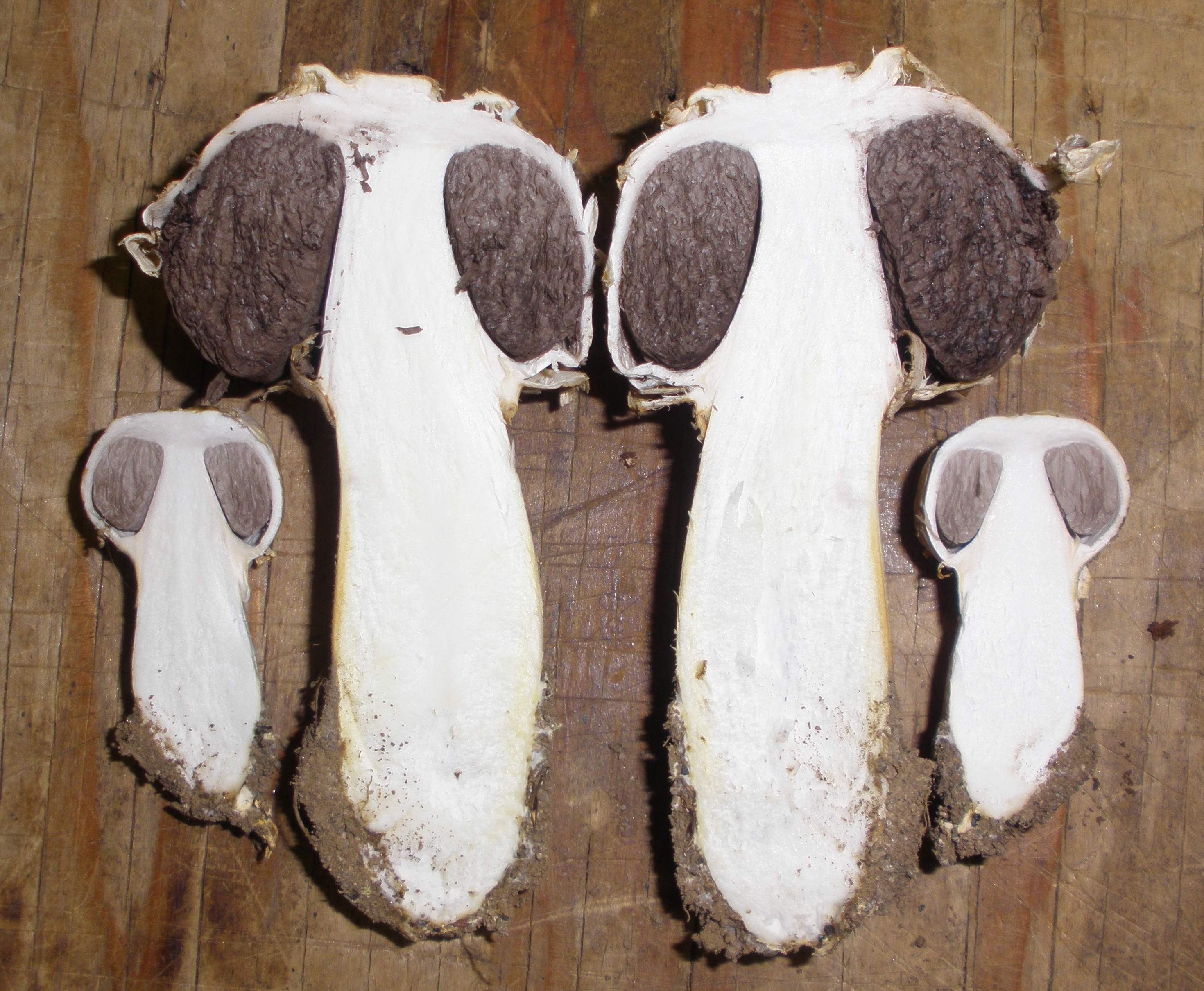 Bisected specimens of the secotioid mushroom Agaricus deserticola G. Moreno, Esqueda & Lizárraga. Specimen found and photographed in Yuba City, CA.